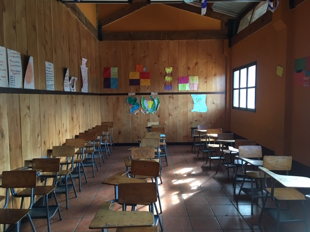 classroom in the Pavarotti Center